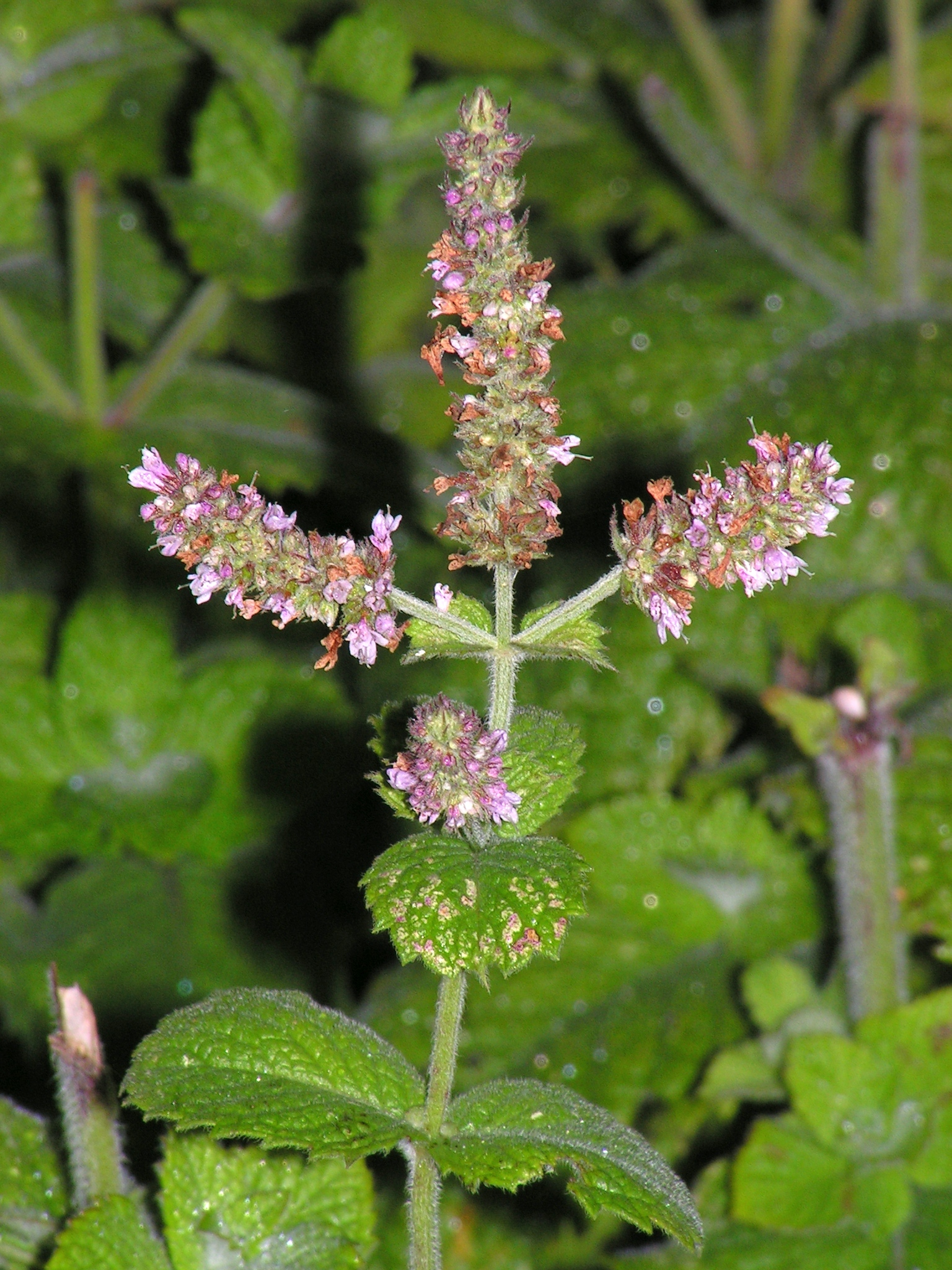 Melissa officinalis.